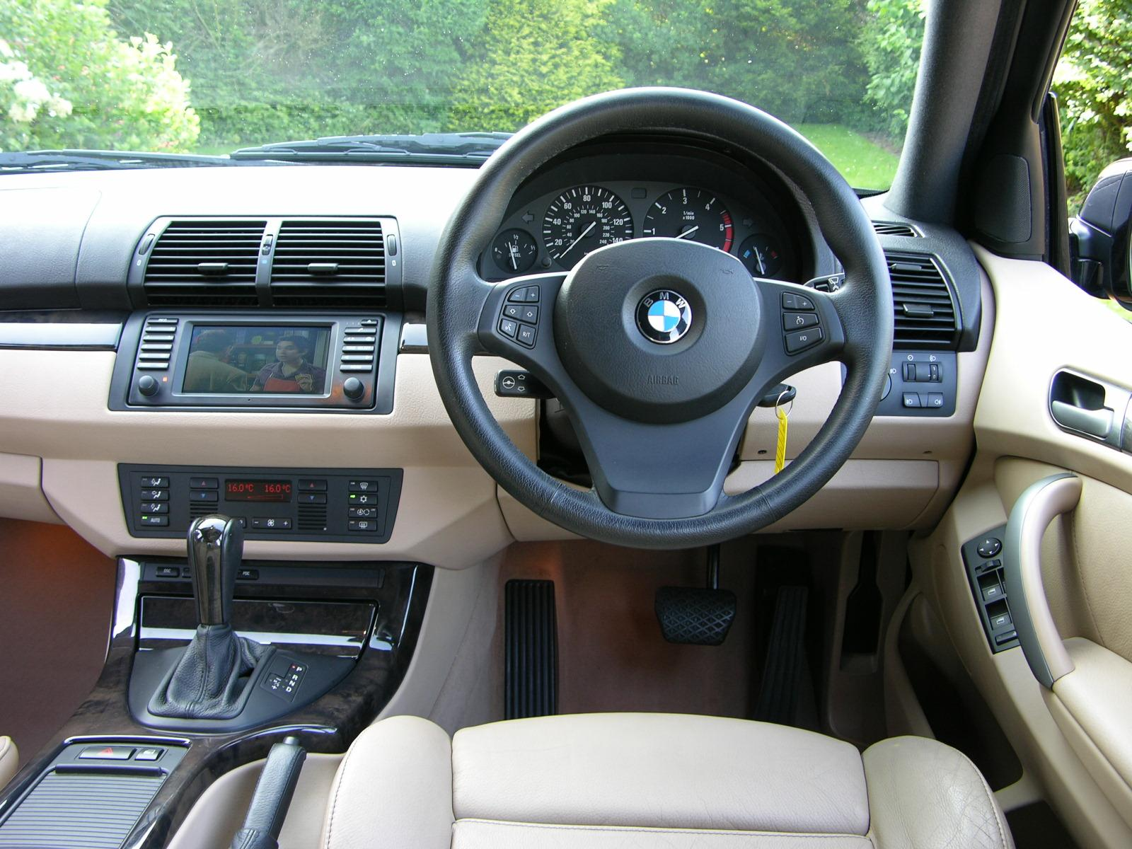 This car is for sale. Please contact us at or visit for more information.